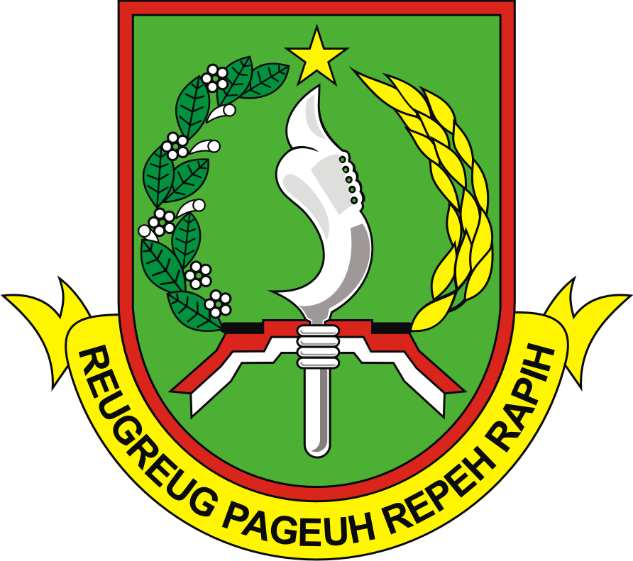 Lambang (Emblem) of Kota (City) of Sukabumi, Provinsi Jawa Barat (West Java Province), Indonesia